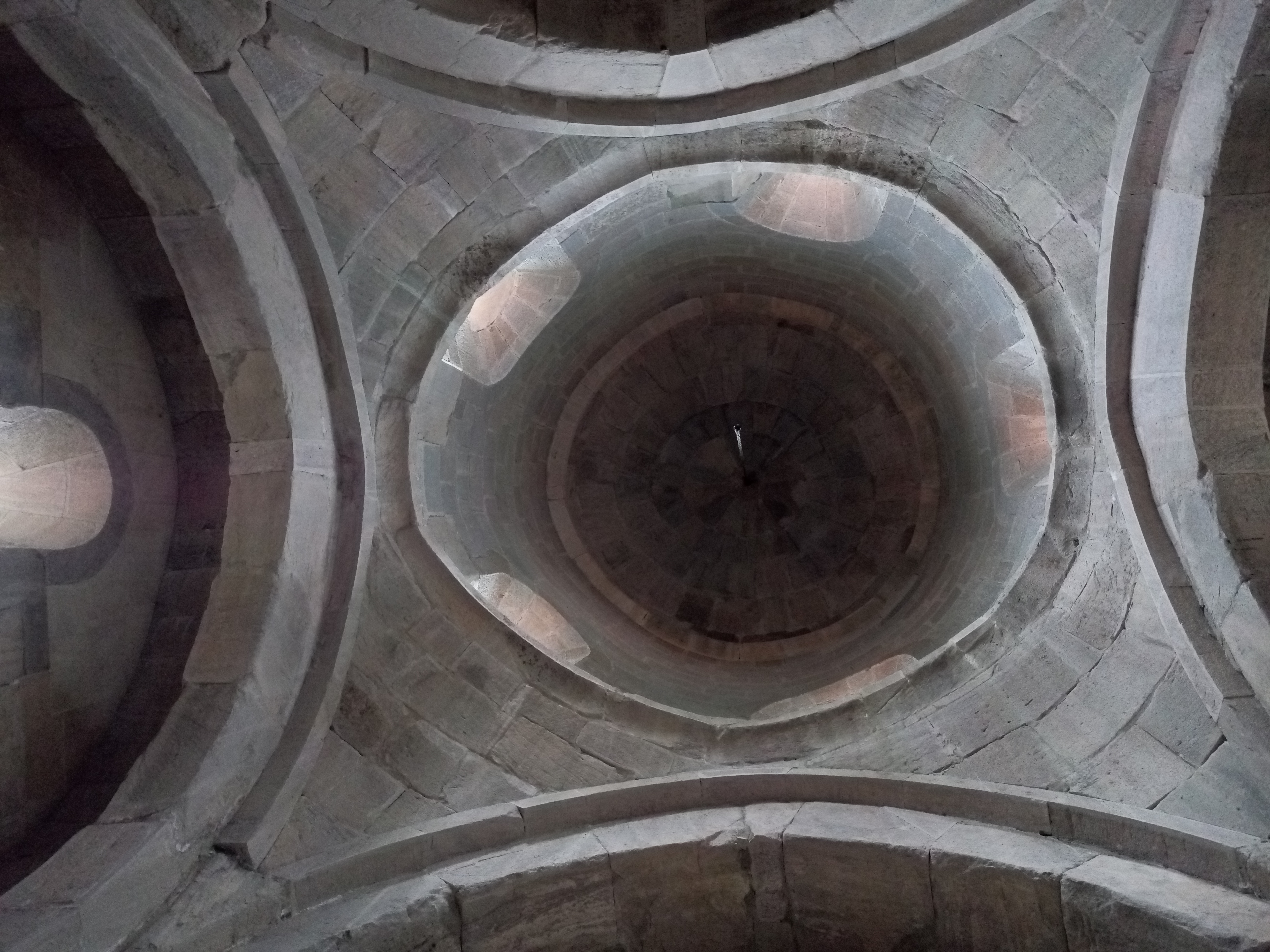 Photo by Artak Lalayan 1/9.7